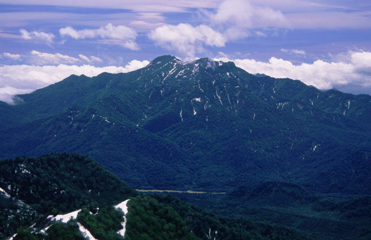 Mount_Takatsuma_from_Mount_Hiuchi_1996-6-29